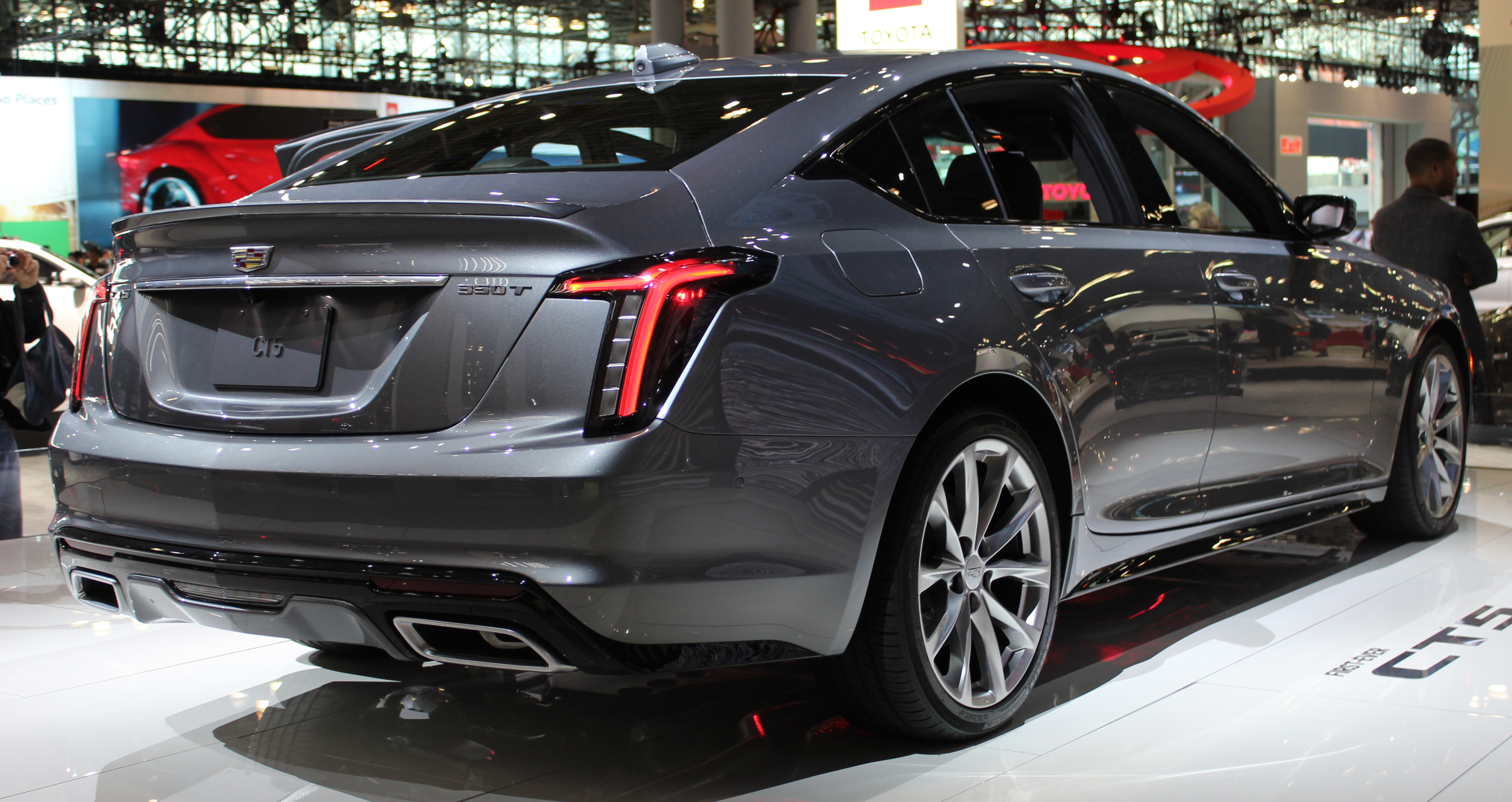 A 2019 Cadillac CT5 photographed during the 2019 New York International Auto Show, in Hudson Yards, Manhattan, NYC